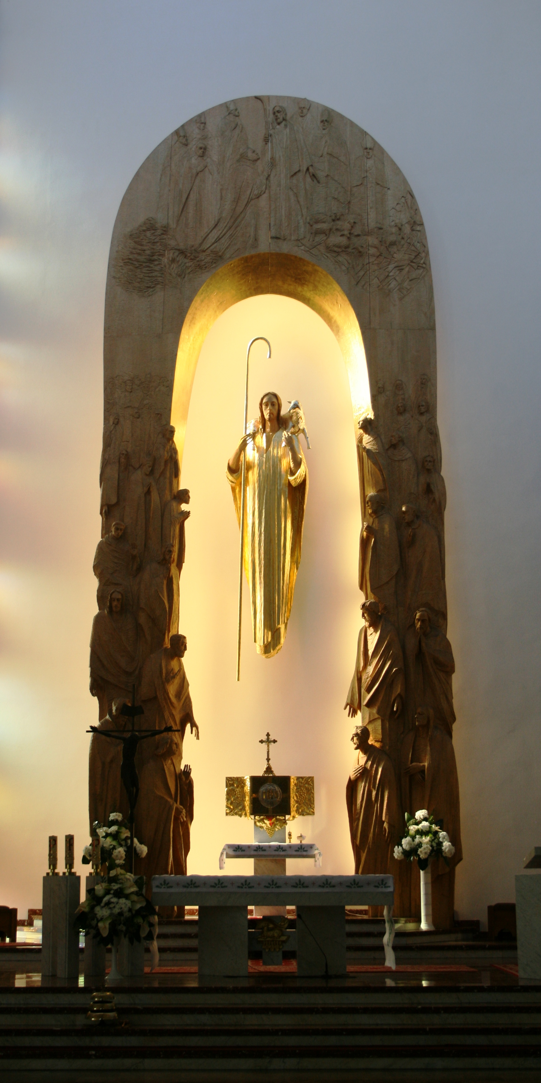 Good Shepherd Church in Krościenko nad Dunajcem (Poland) – altar